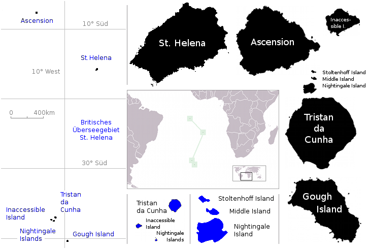 Location of the British overseas territory of Saint Helena in the Atlantic Ocean